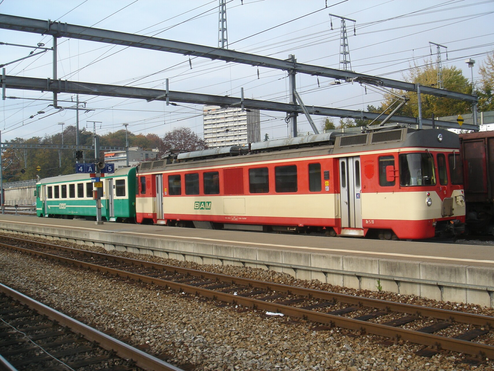 MBC Be 4/4 15 ex-Travys (Yverdon—Ste-Croix) with Bt 51 in Morges (Switzerland)